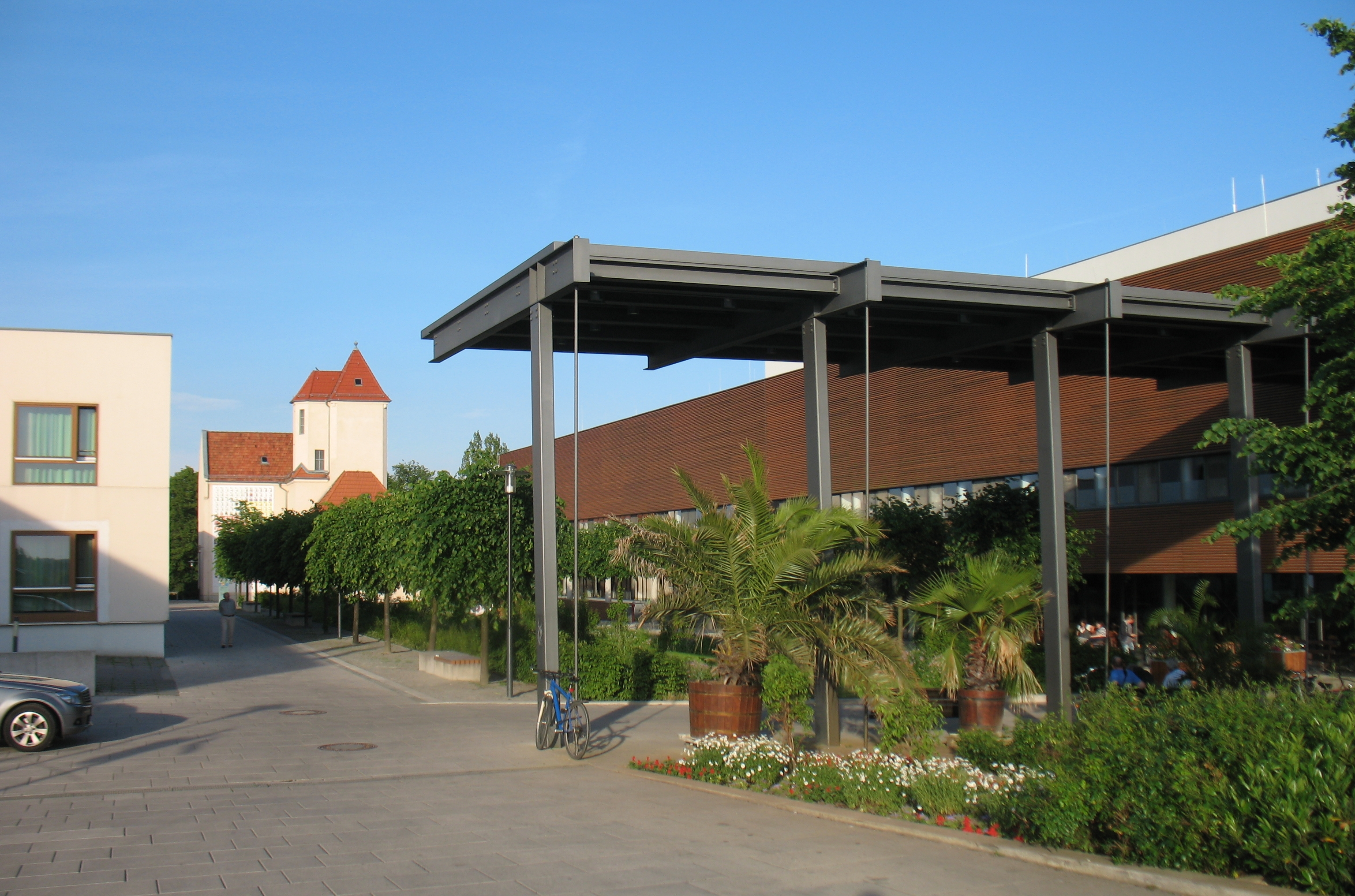 Krankenhaus Hedwigshöhe, Höhensteig 1, 12526 Berlin